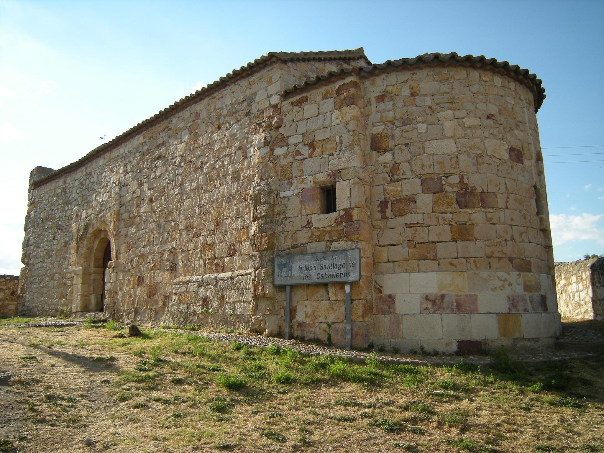 Built at the beginning of XII century, it's named after the medieval apostle patron: Santiago. Second part of names comes from the medieval tradition stating that in this church, Rodrigo Díaz de Vivar, el Cid was armored knight.